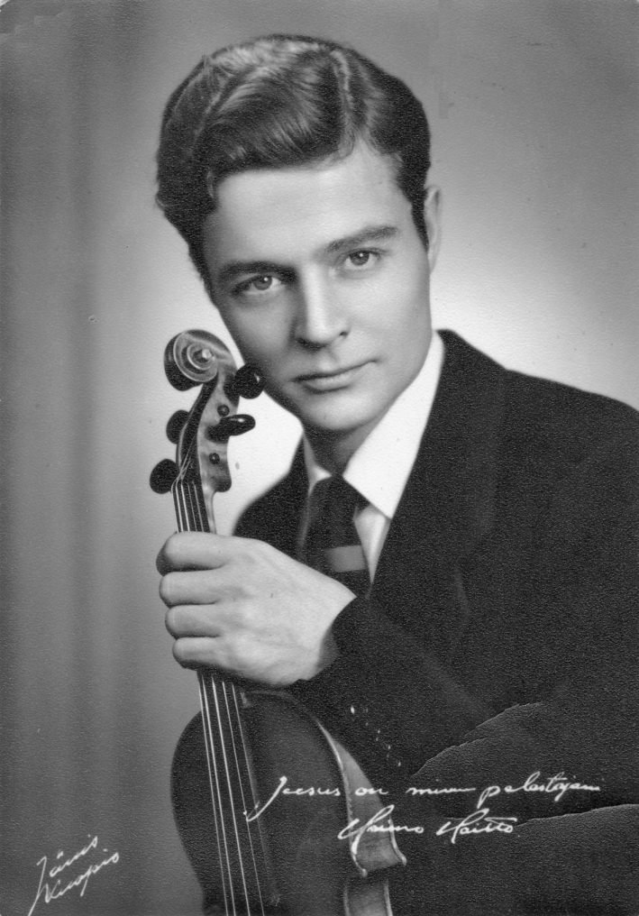 Publicity photograph of the Finnish violinist Heimo Haitto (1925–1999). The caption reads: "Jeesus on minun pelastajani" (Jesus is my Saviour). This text and signature added photographically. Photograph manufactured and distributed by Jänis, Kuopio.